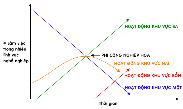 Clark's Sector Model